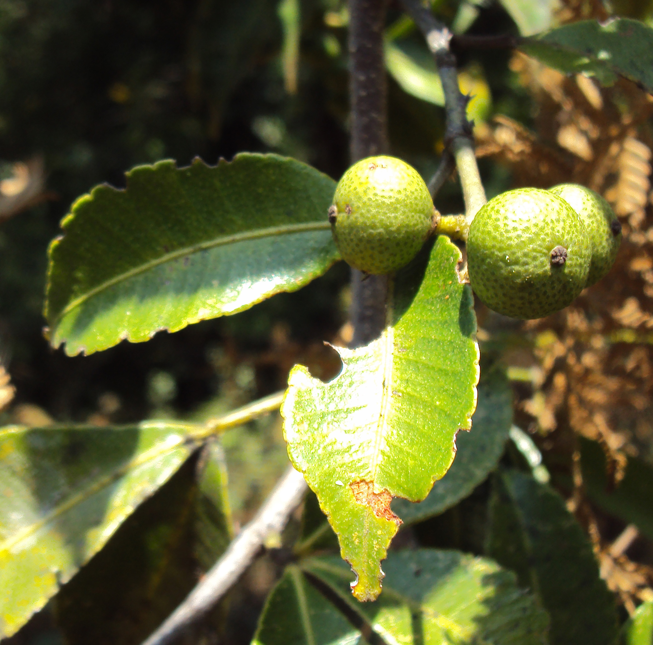 Toddalia asiatica